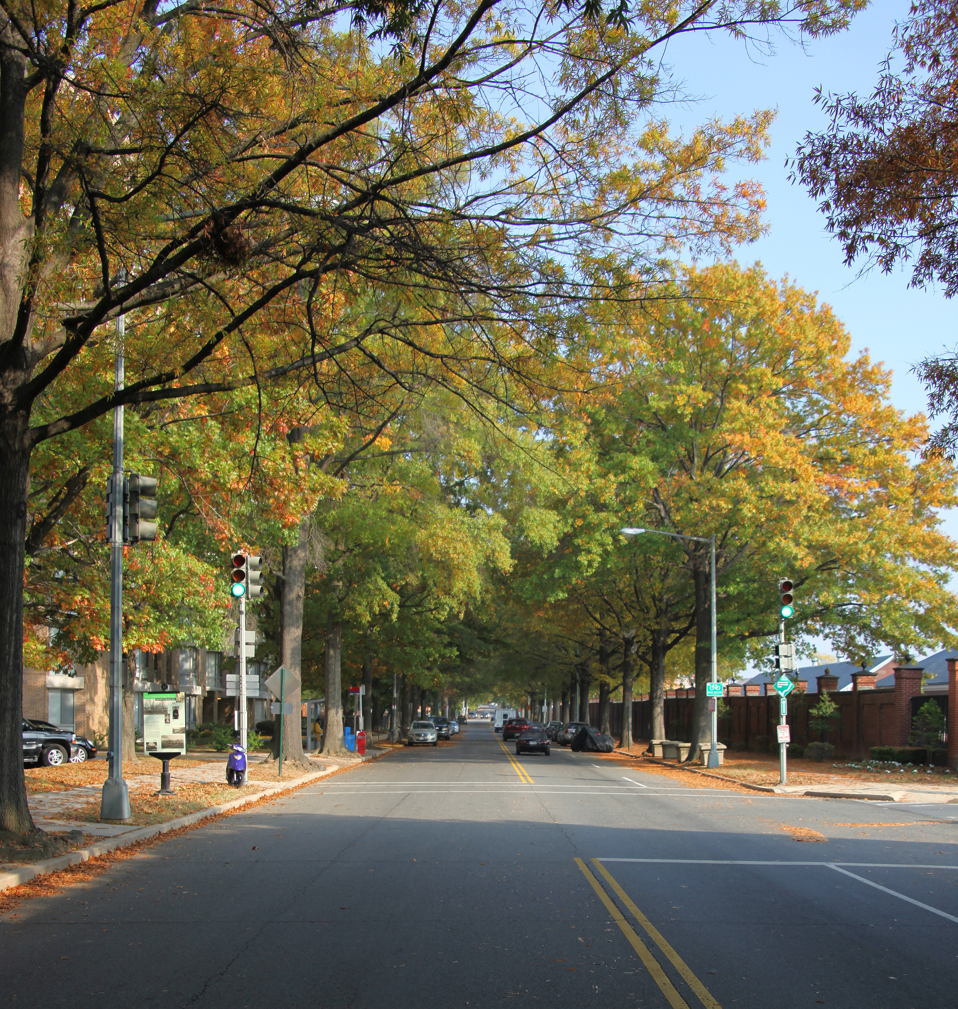 Looking east down P Street SW in Washington, D.C., in the United States. The photographer is standing about 25 feet east of the intersection of P Street SW and 4th Street SW. The low brick wall to the right is Fort Lesley J. McNair.